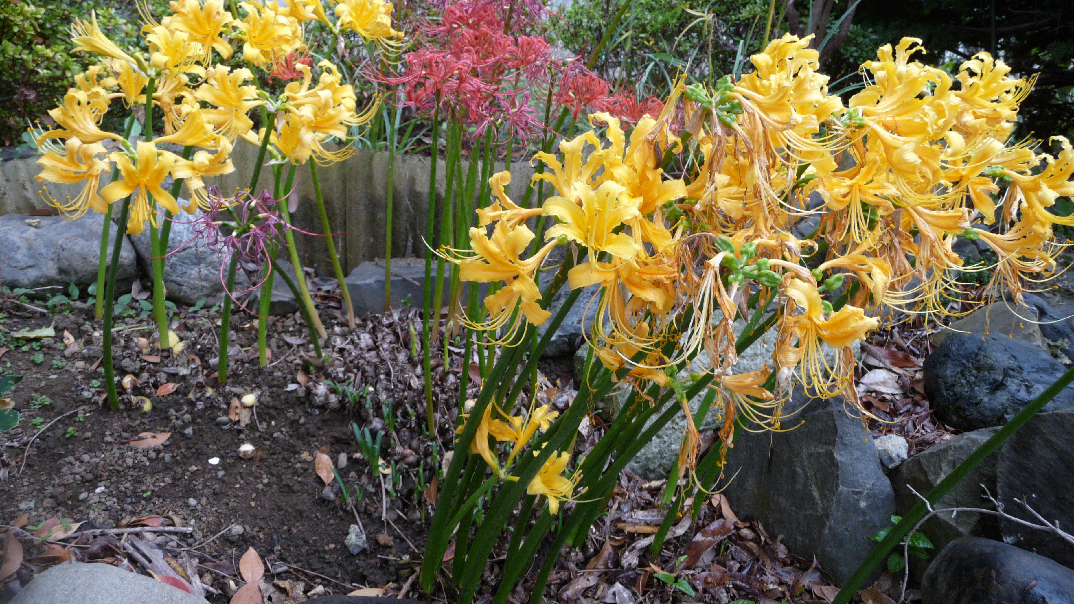 (Yellow) Lycoris aurea/ Lycoris africana / Golden hurricane lily / Golden spider lily in Chiba, Japan